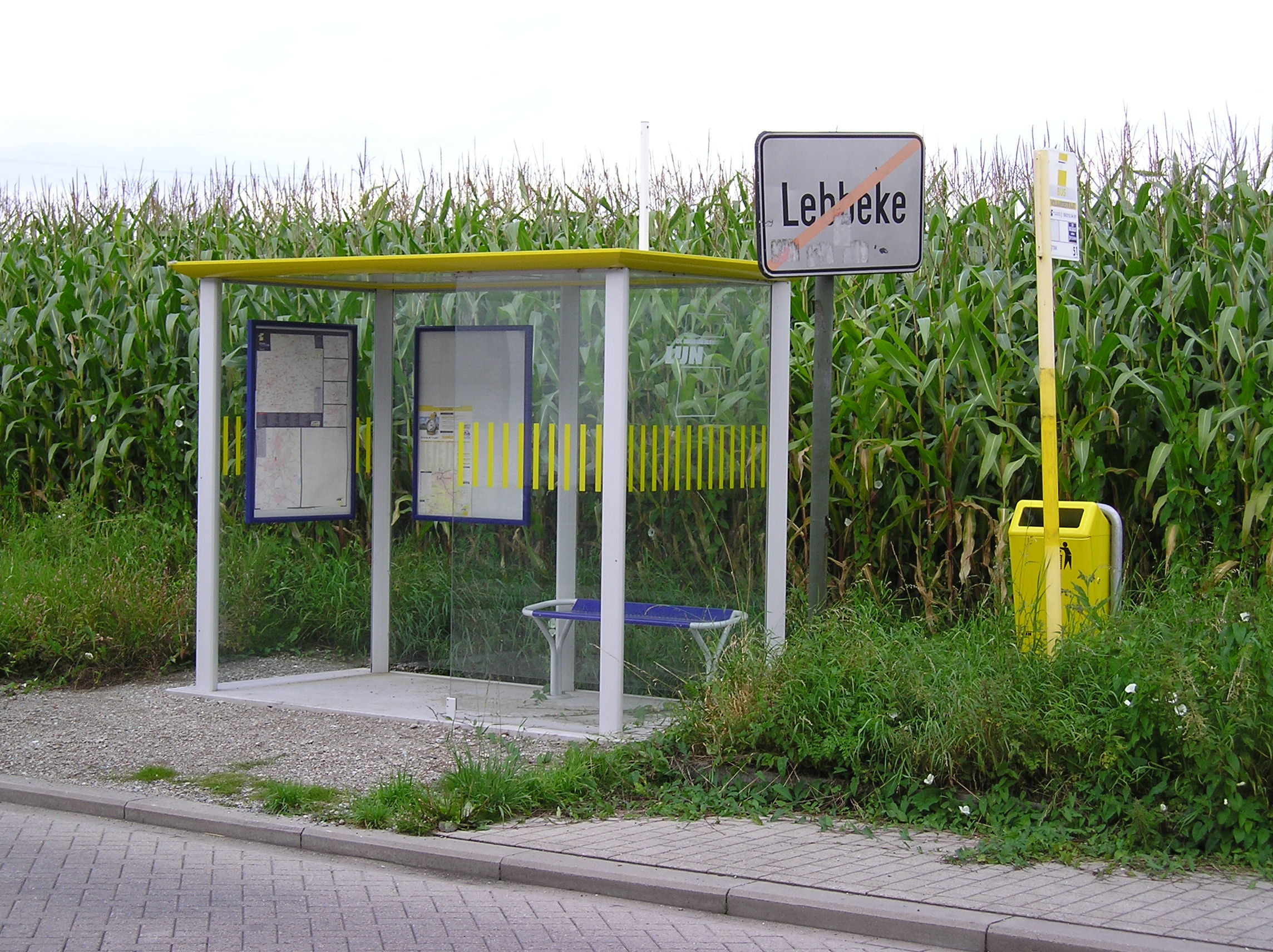 De Lijn bus stop just outside the town of Lebbeke, Belgium.